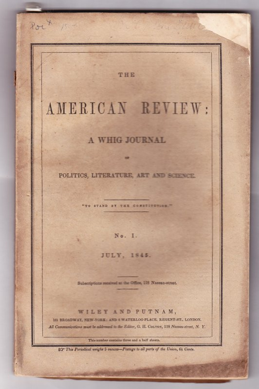 The American Review, containing "Eulalie" by Edgar Allan Poe.